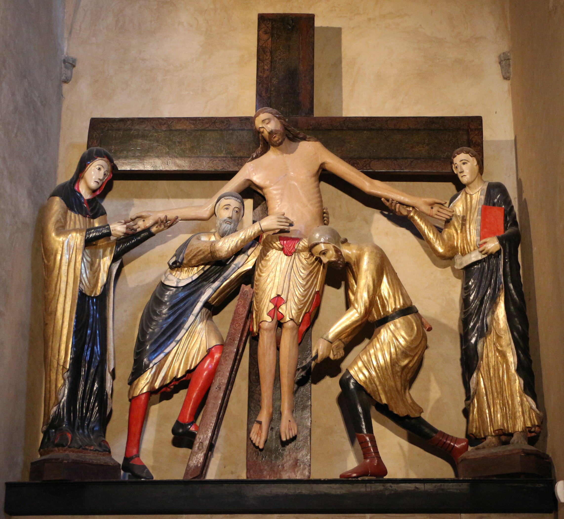 Duomo (Volterra) - Altare della Deposizione